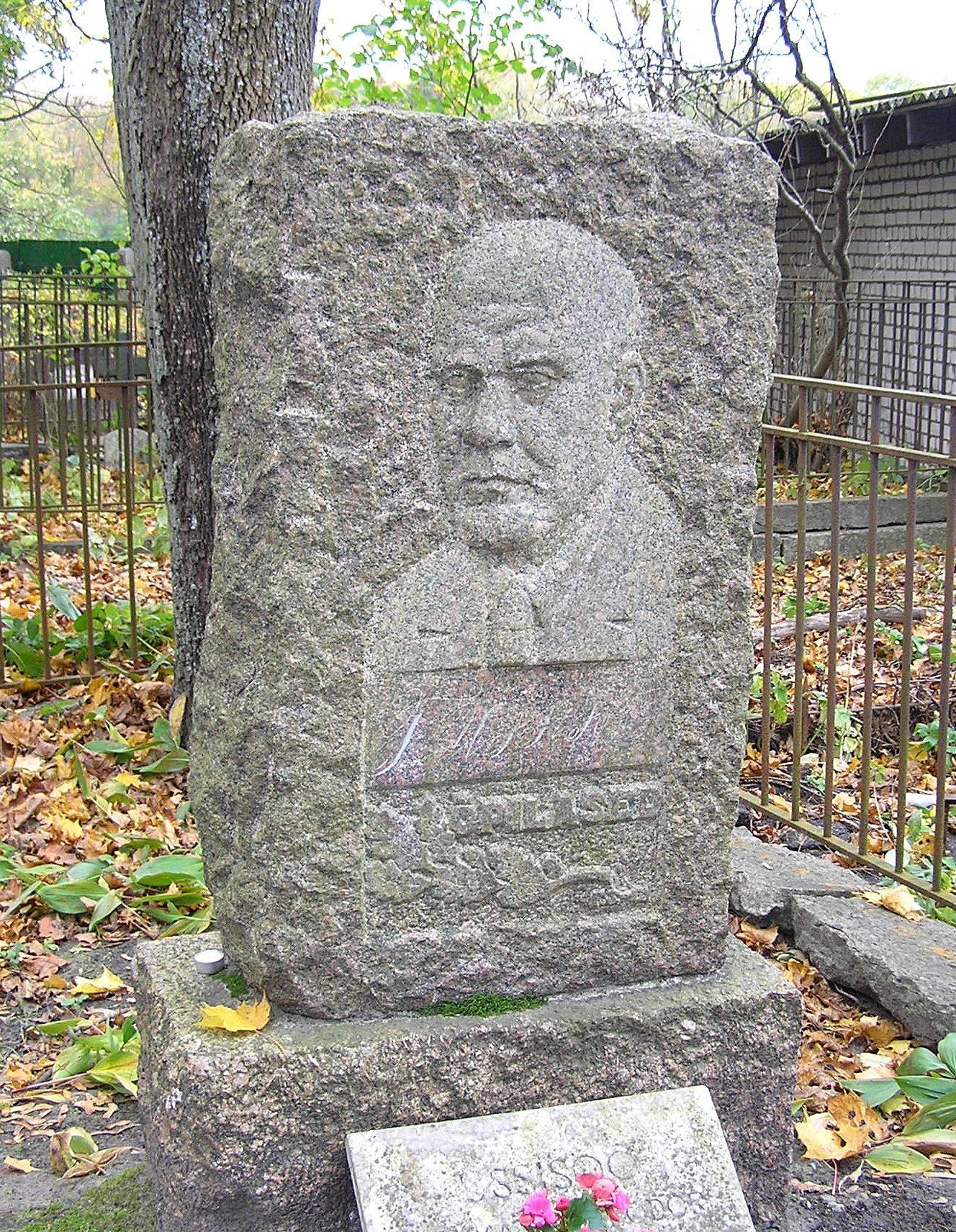 Tombstone of Teodor Ussisoo in Tallinn City Cemetery